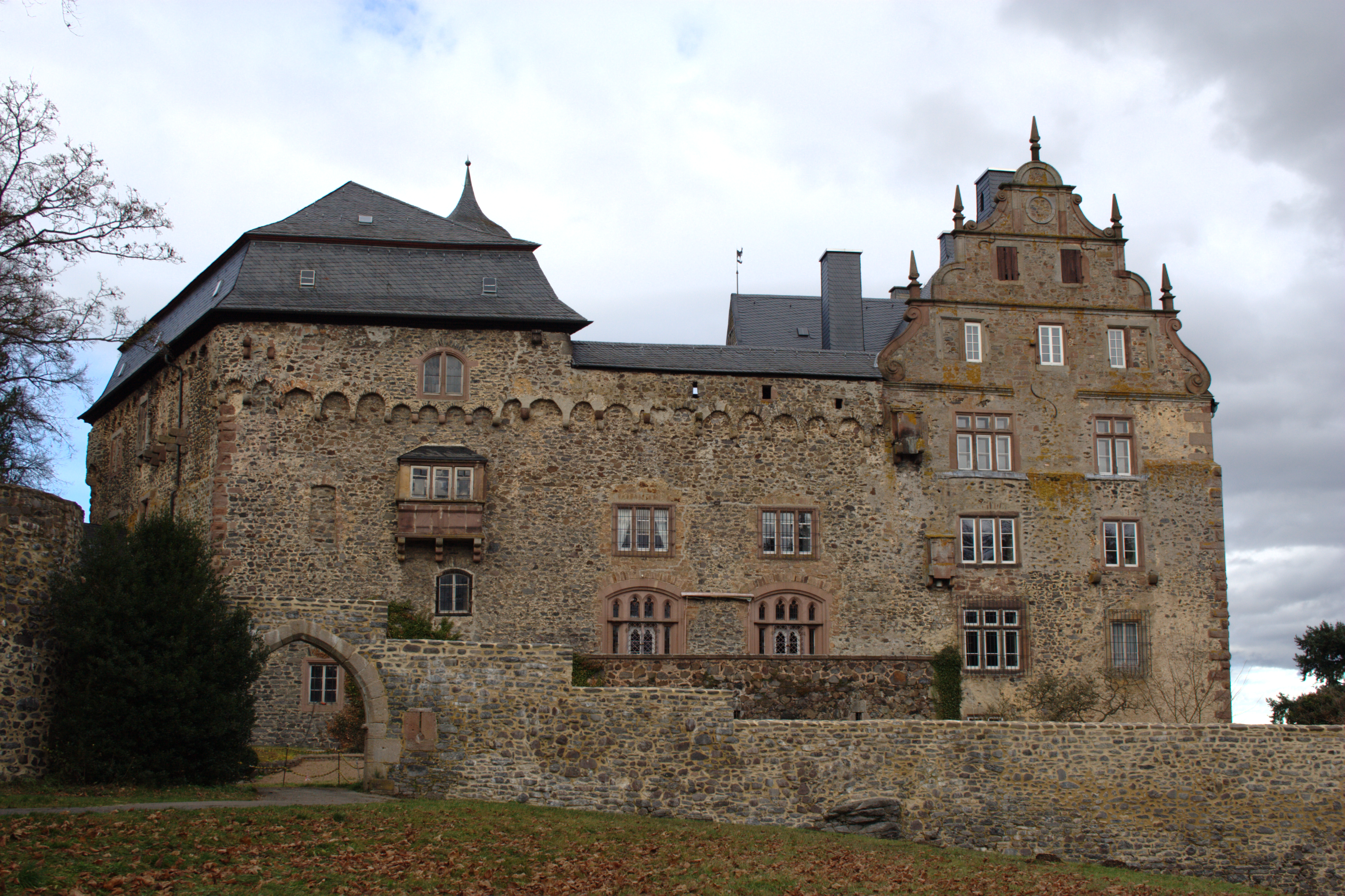 Schloss Eisenbach near Frischborn, Lauterbach, Hessen, Germany